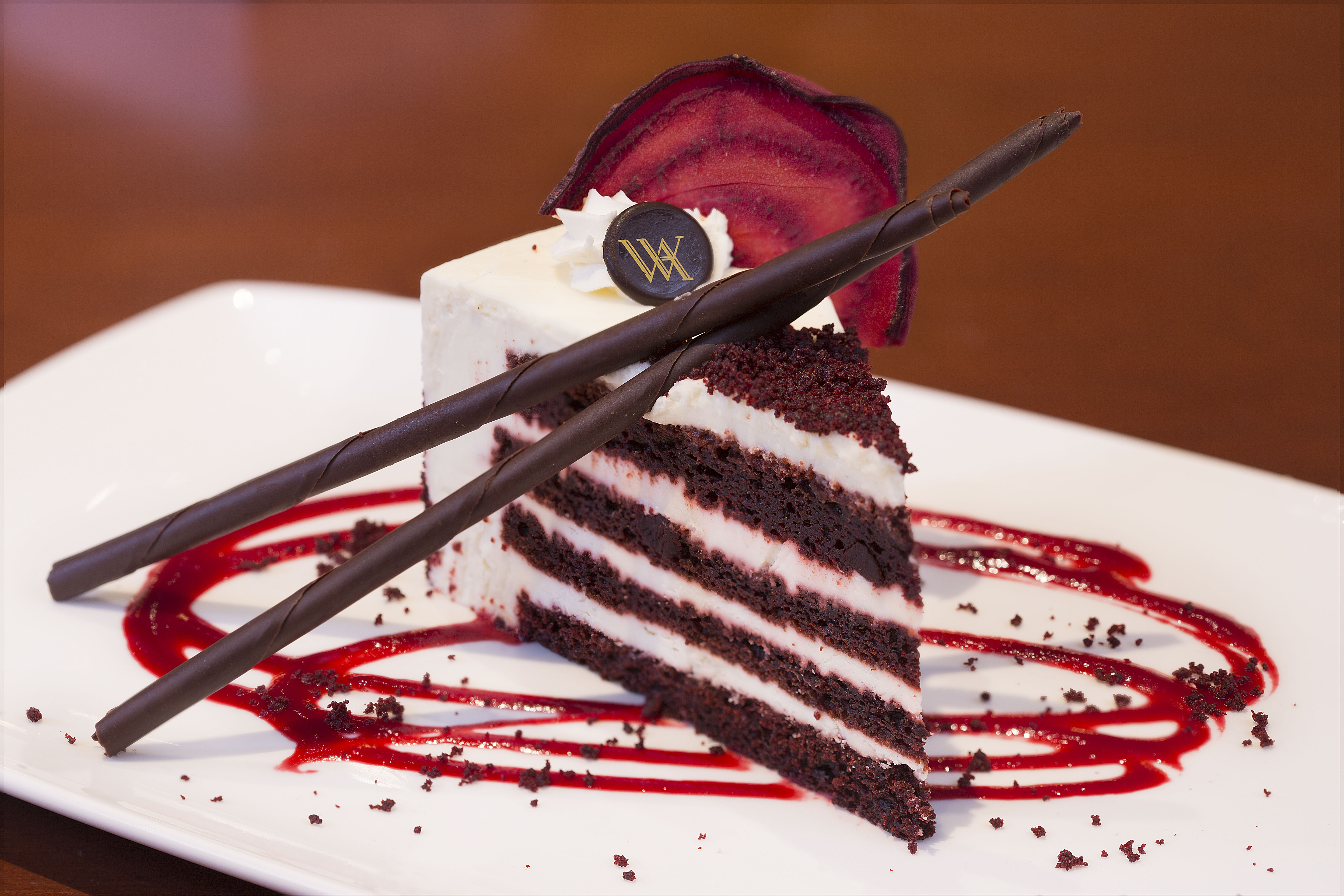 Red Velvet Cake, prepared by Waldorf Astoria New York